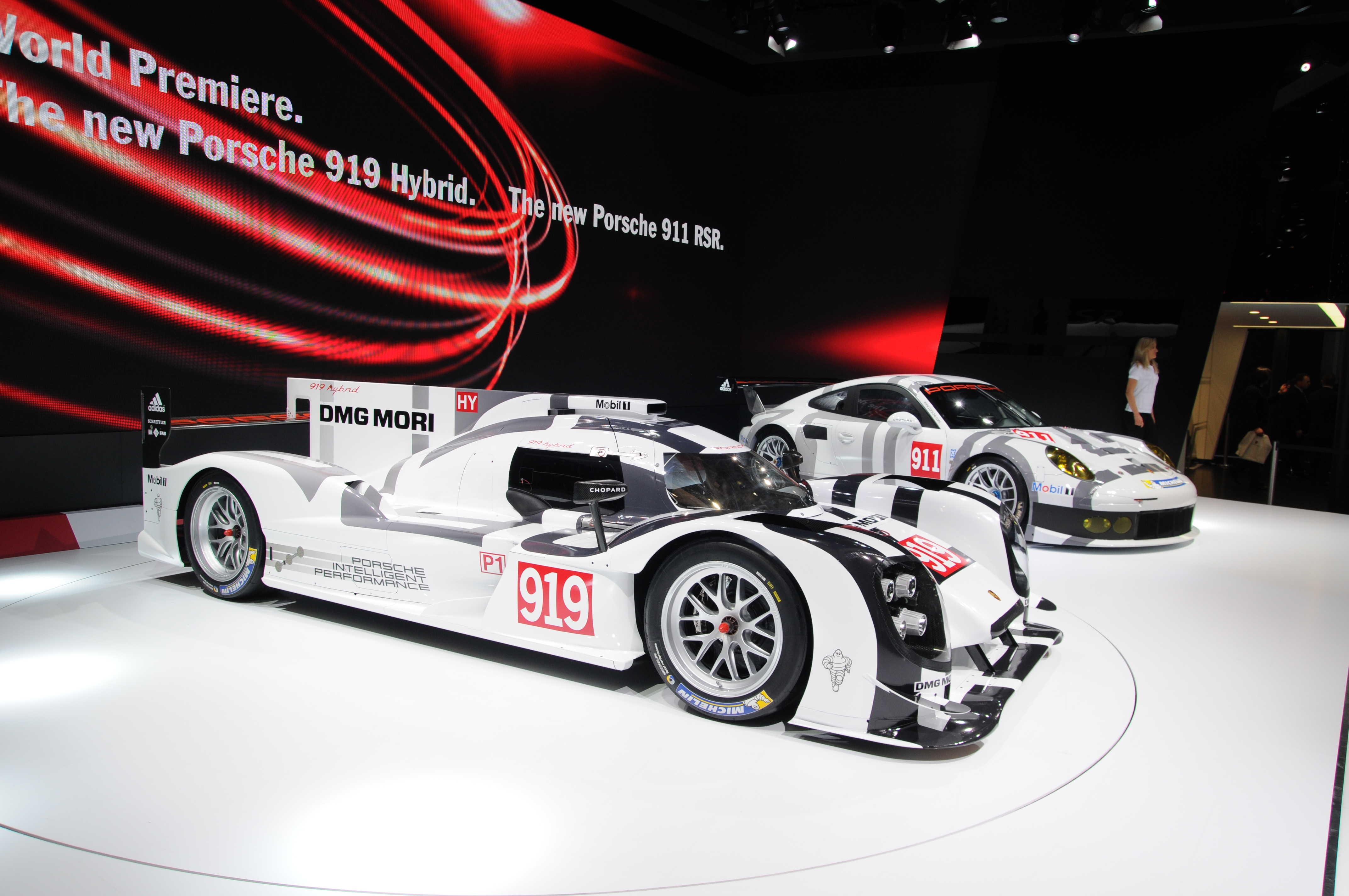 Geneva Motor Show 2014 (photo taken on the first press day)